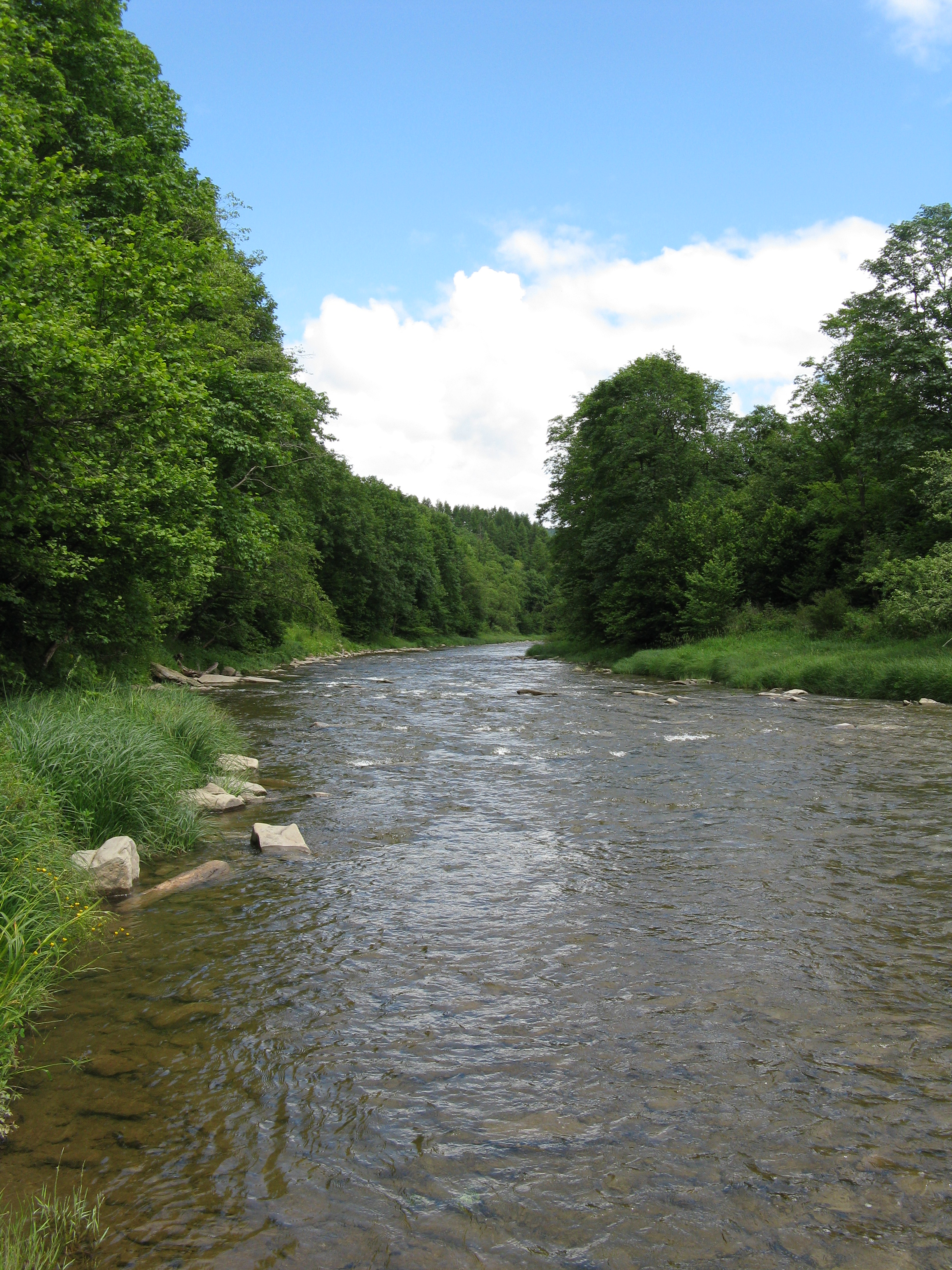 Wołosaty River upstream of Pszczeliny